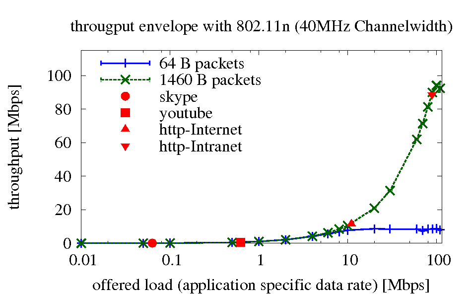 Description